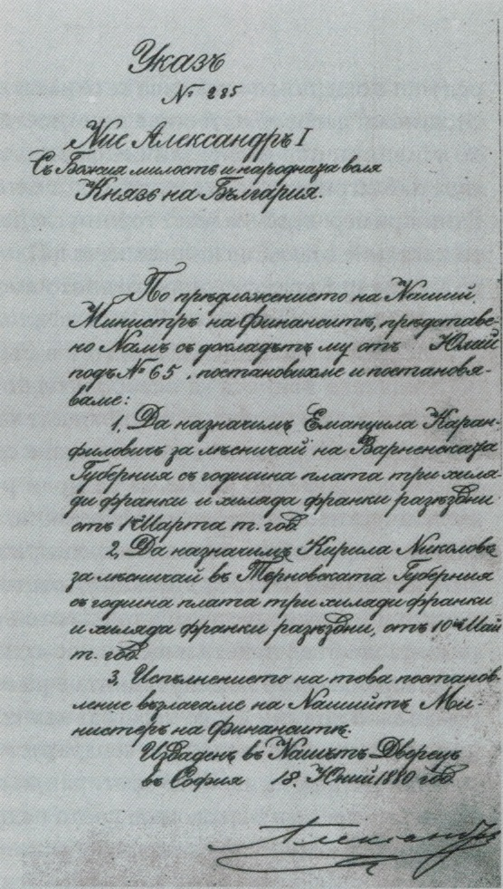 Decree of Alexander I of Bulgaria for the appointment of Emanuil Karamfilovich as a Forester of Varna Governorate